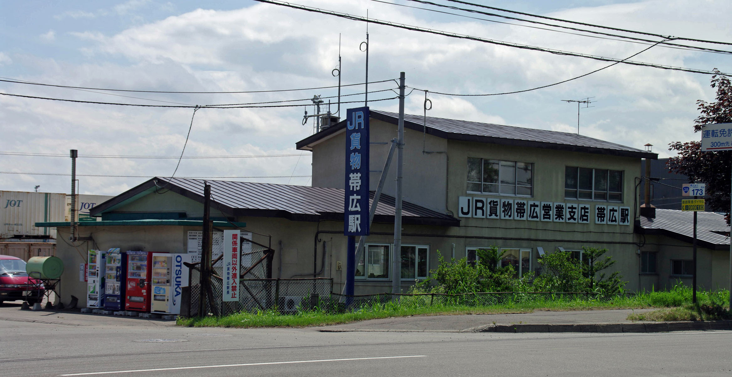 Obihiro freight station, Obihiro, Hokkaido, Japan